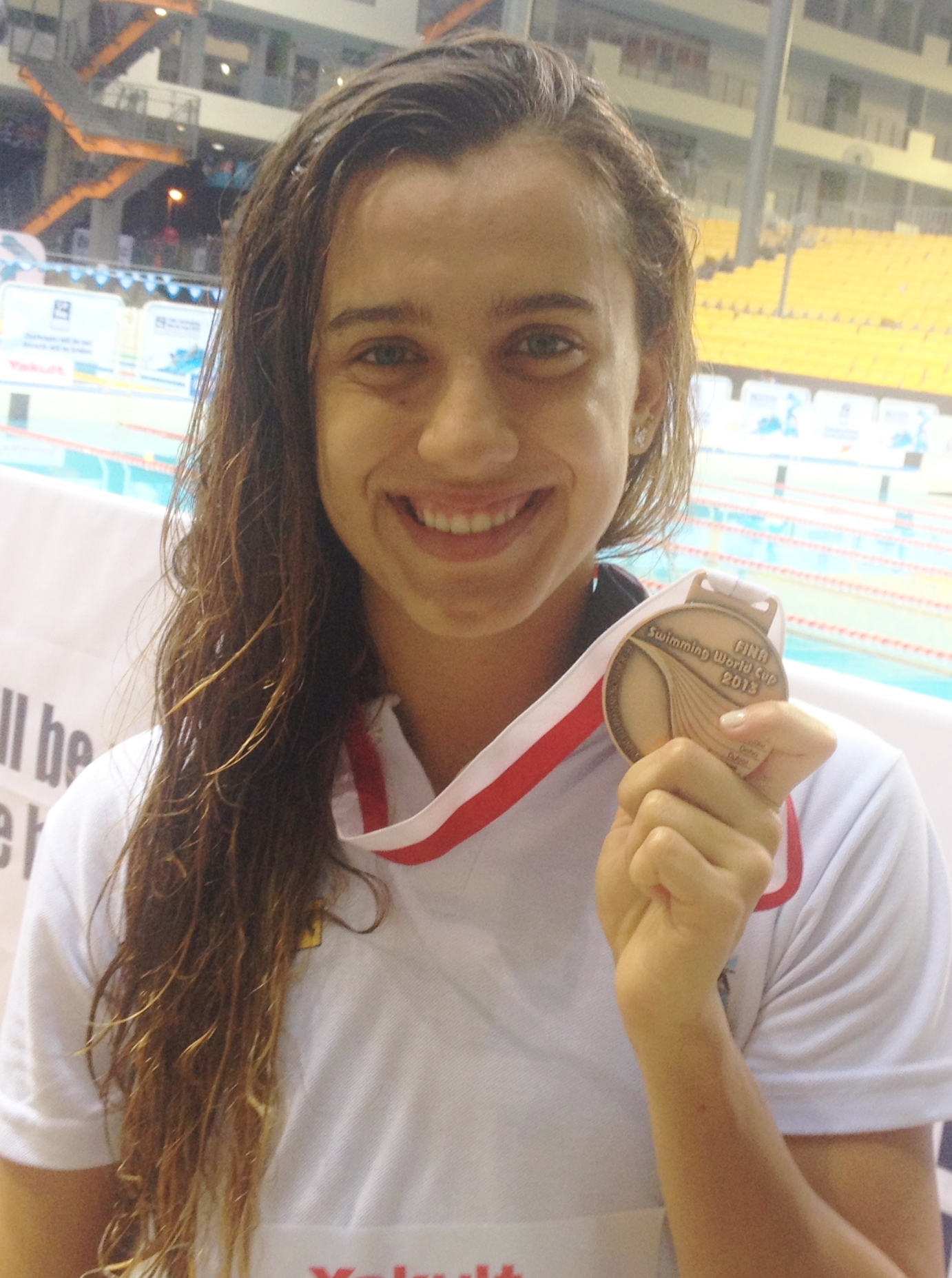 Brazilian Swimmer